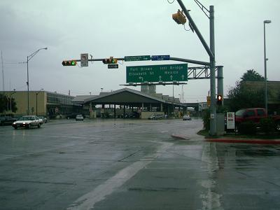 The entrance to Gateway International Bridge on International Blvd. in Brownsville, Texas.